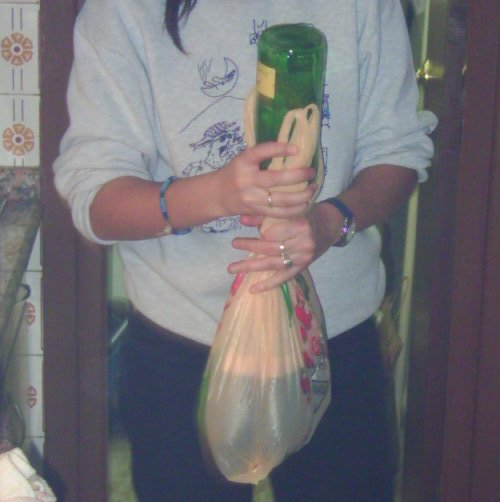 Mixing red wine and cola in a supermarket bag.